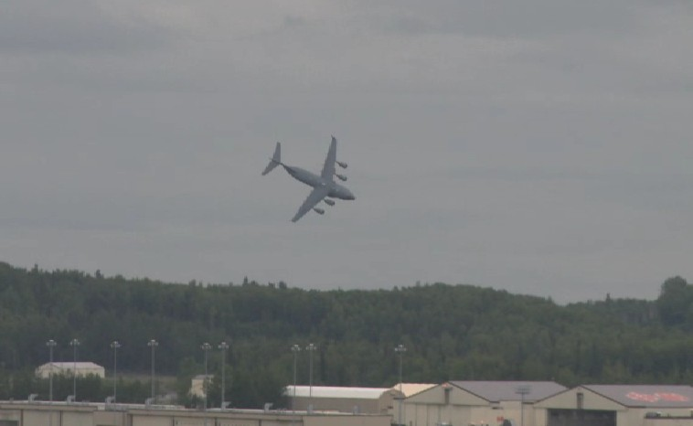 Screen capture from video of the C-17 crash at Elmendorf AFB, Alaska, in 2010.